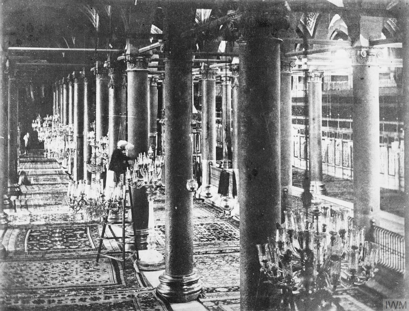 T E Lawrence and the Arab Revolt 1916 - 1918 The Great Mosque of the prophet, Medina - interior view.